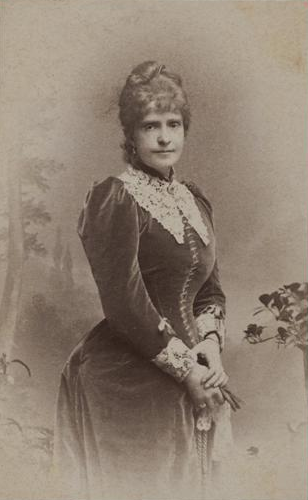 Picture of Maria Pia of Savoy, Queen of Portugal, 1895.